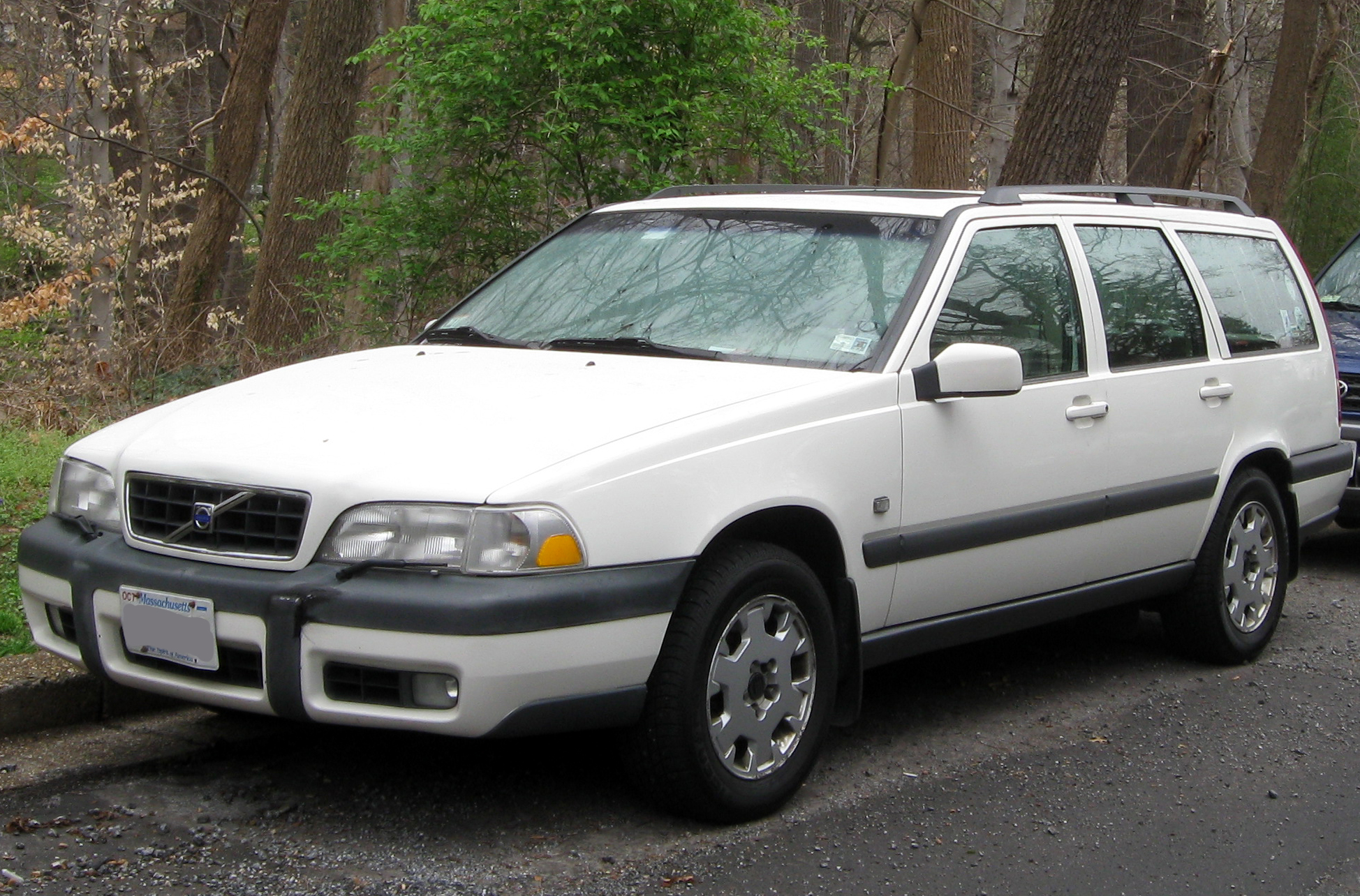 Volvo V70 XC photographed in Washington, D.C., USA